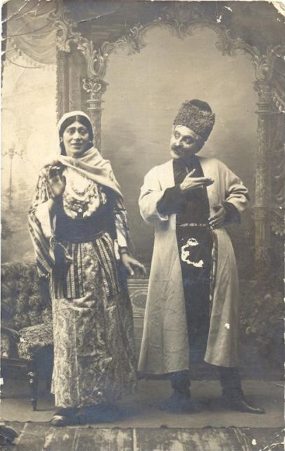 Arshin mal alan in 1915 Watermark from image: Fotobank